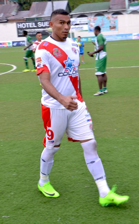 Cristian Lagos as a player of Santos de Guápiles